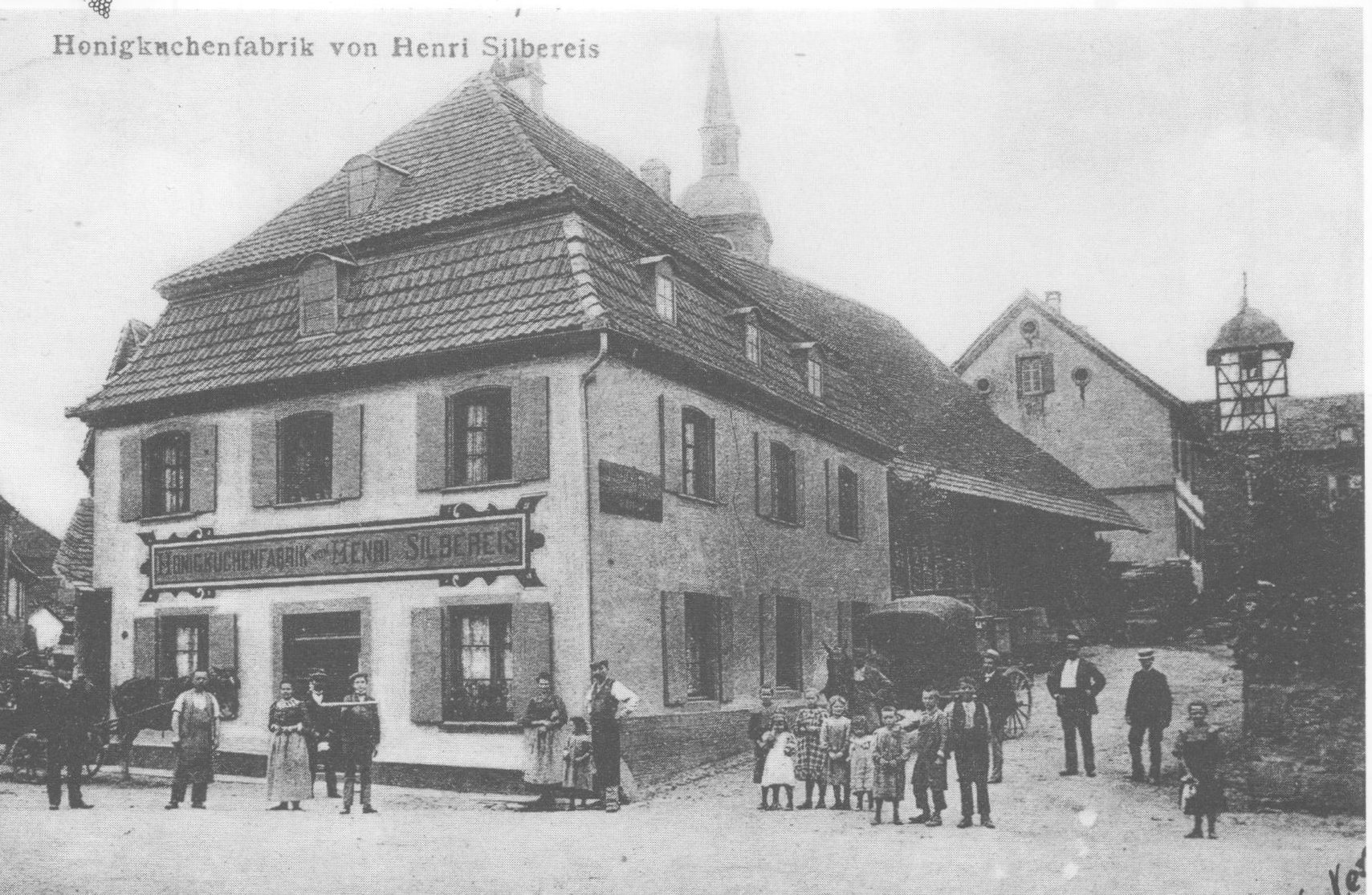 fabrc of gingerbread from gertwiller in 1900